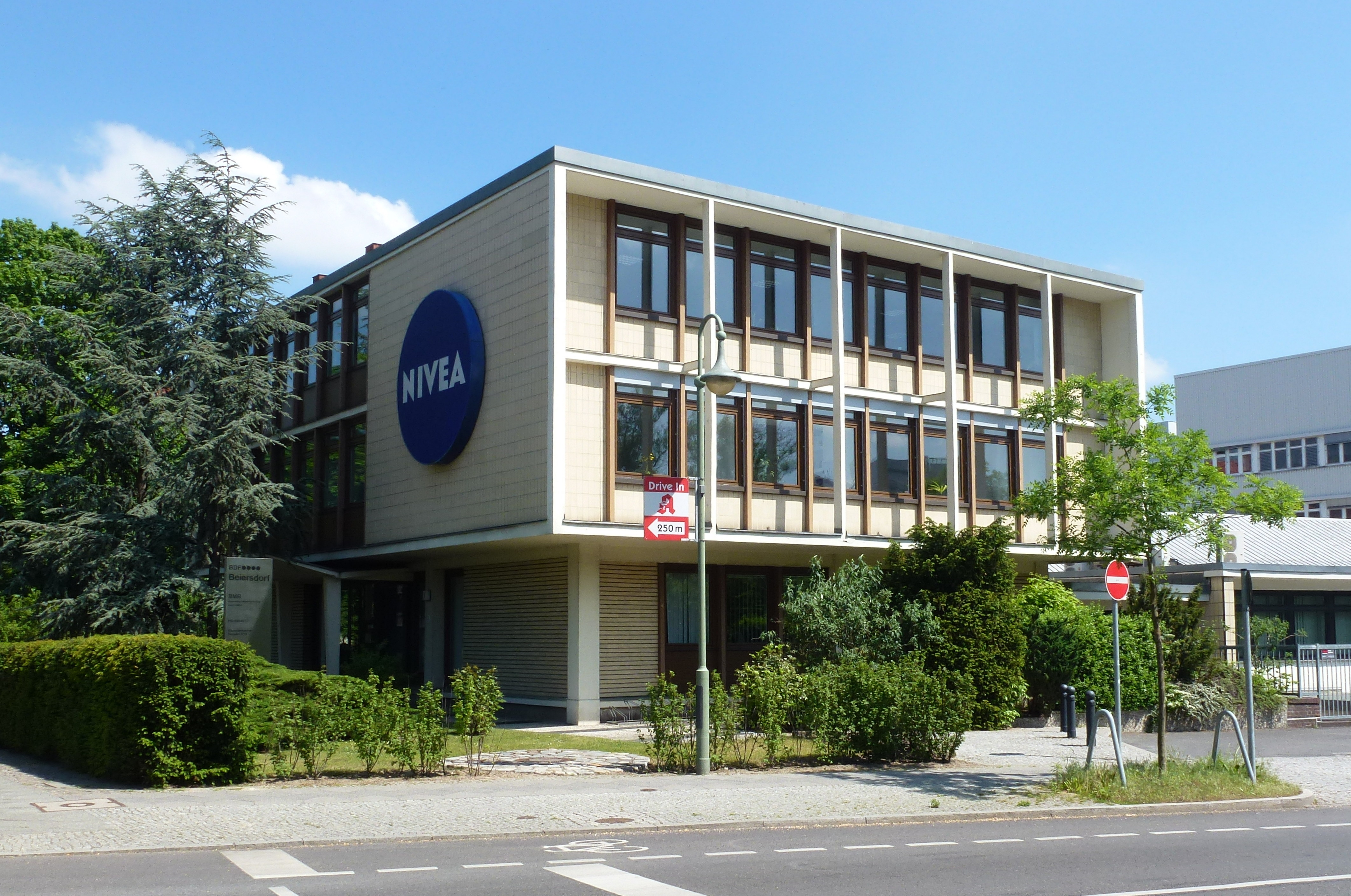 Berlin-Charlottenburg Franklinstraße 1